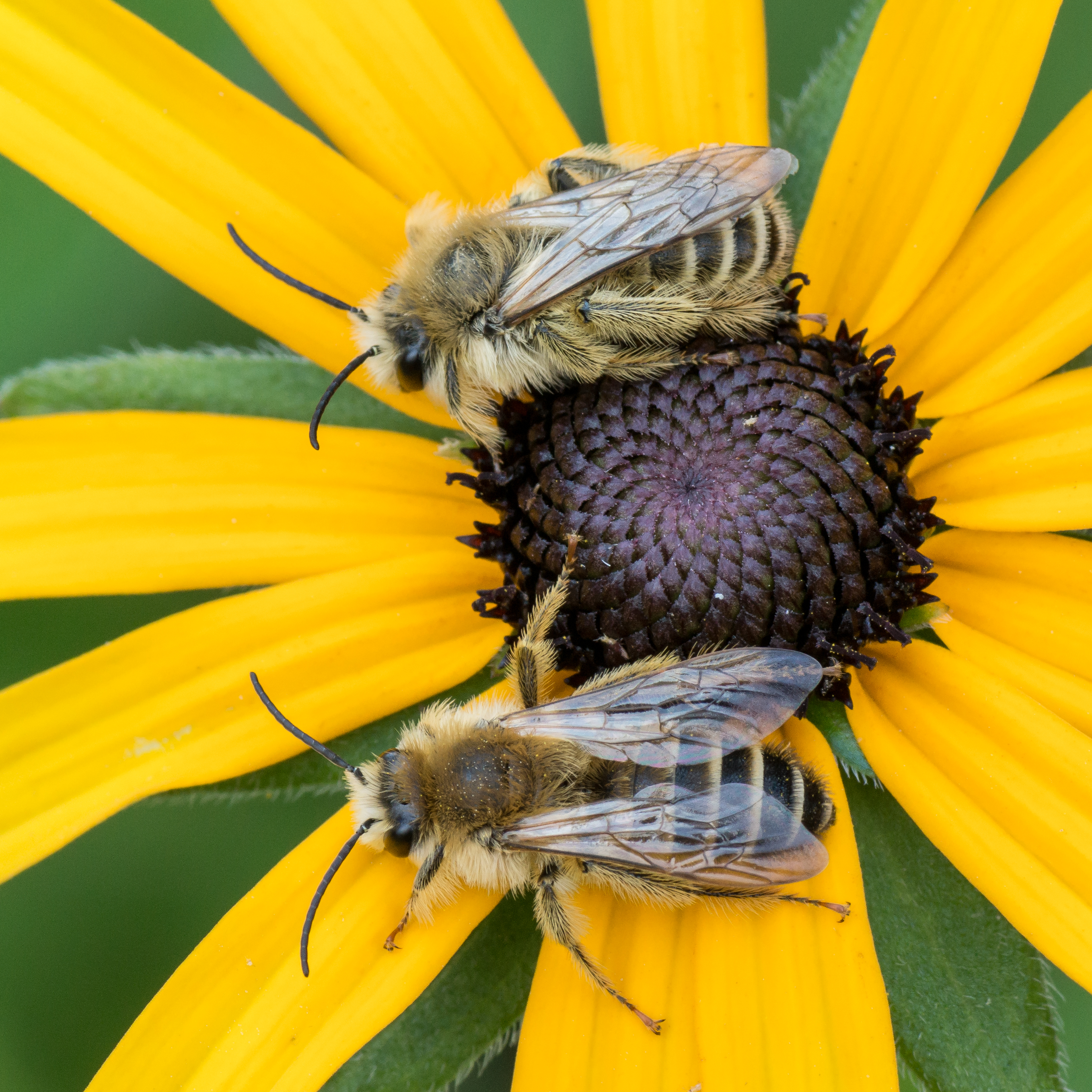 2 male Dasypoda hirtipes on a yellow aster blossom